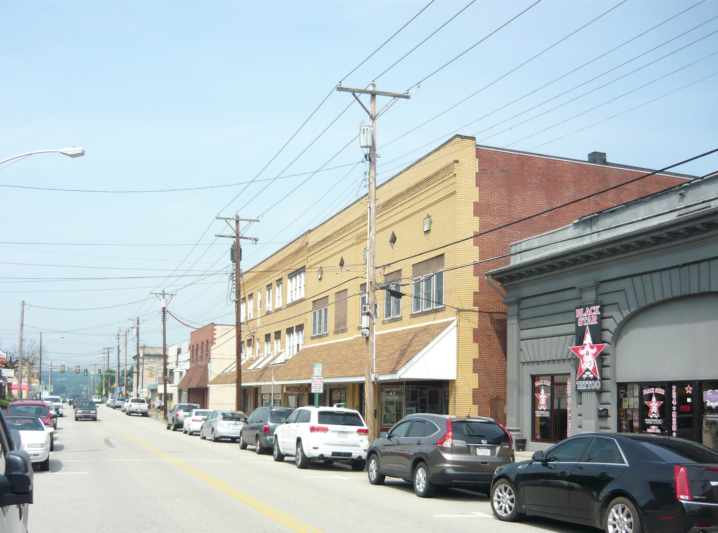 Looking southwestward on Broad Avenue from Baltimore Street, Borough of North Belle Vernon, Westmoreland County, Pennsylvania.